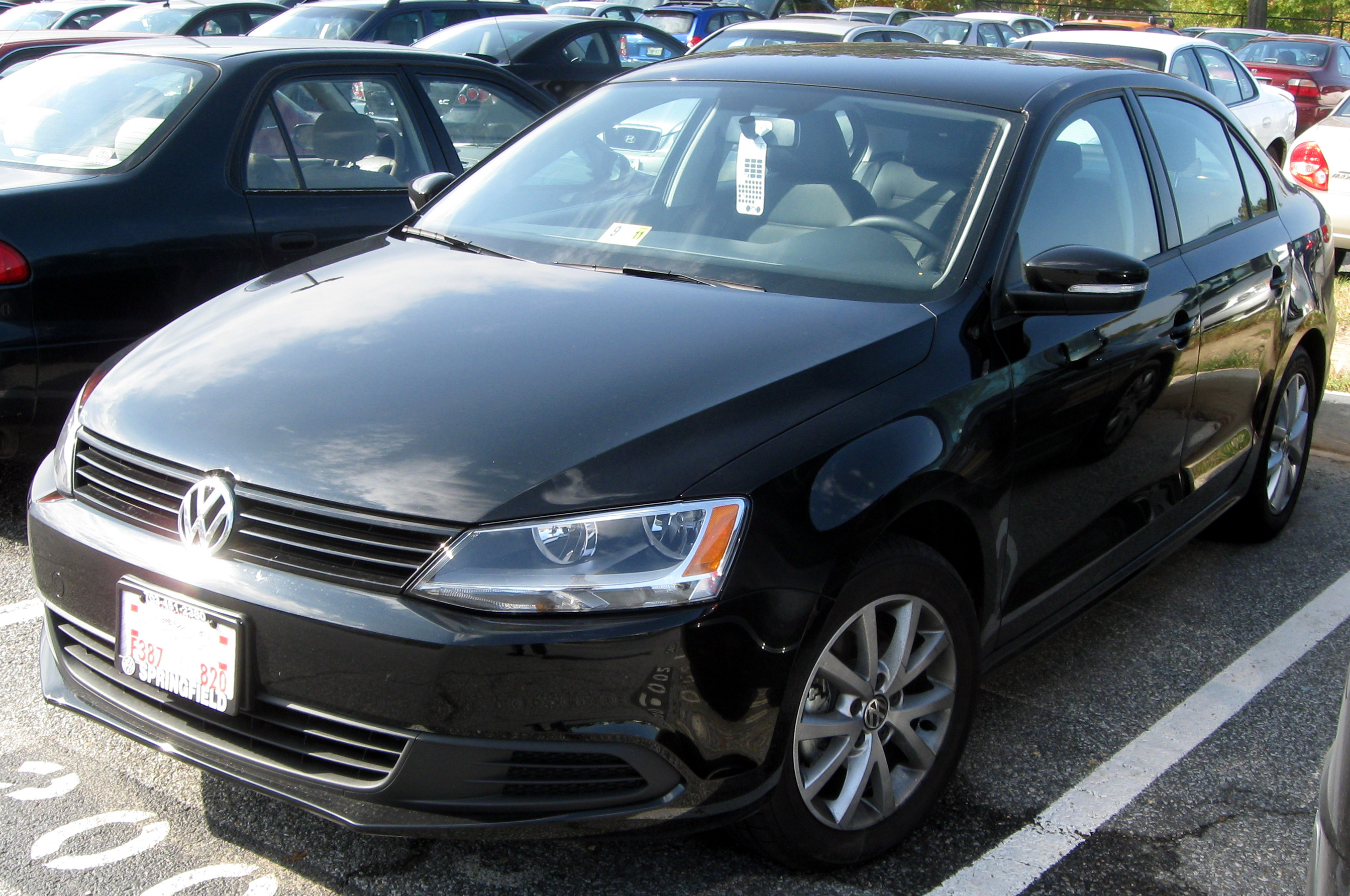 2011 Volkswagen Jetta photographed in College Park, Maryland, USA.